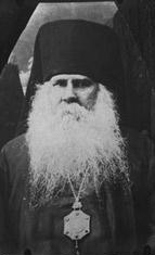 Nazariy (Blinov), archbishop of Tobolsk (1852 - after 1932)